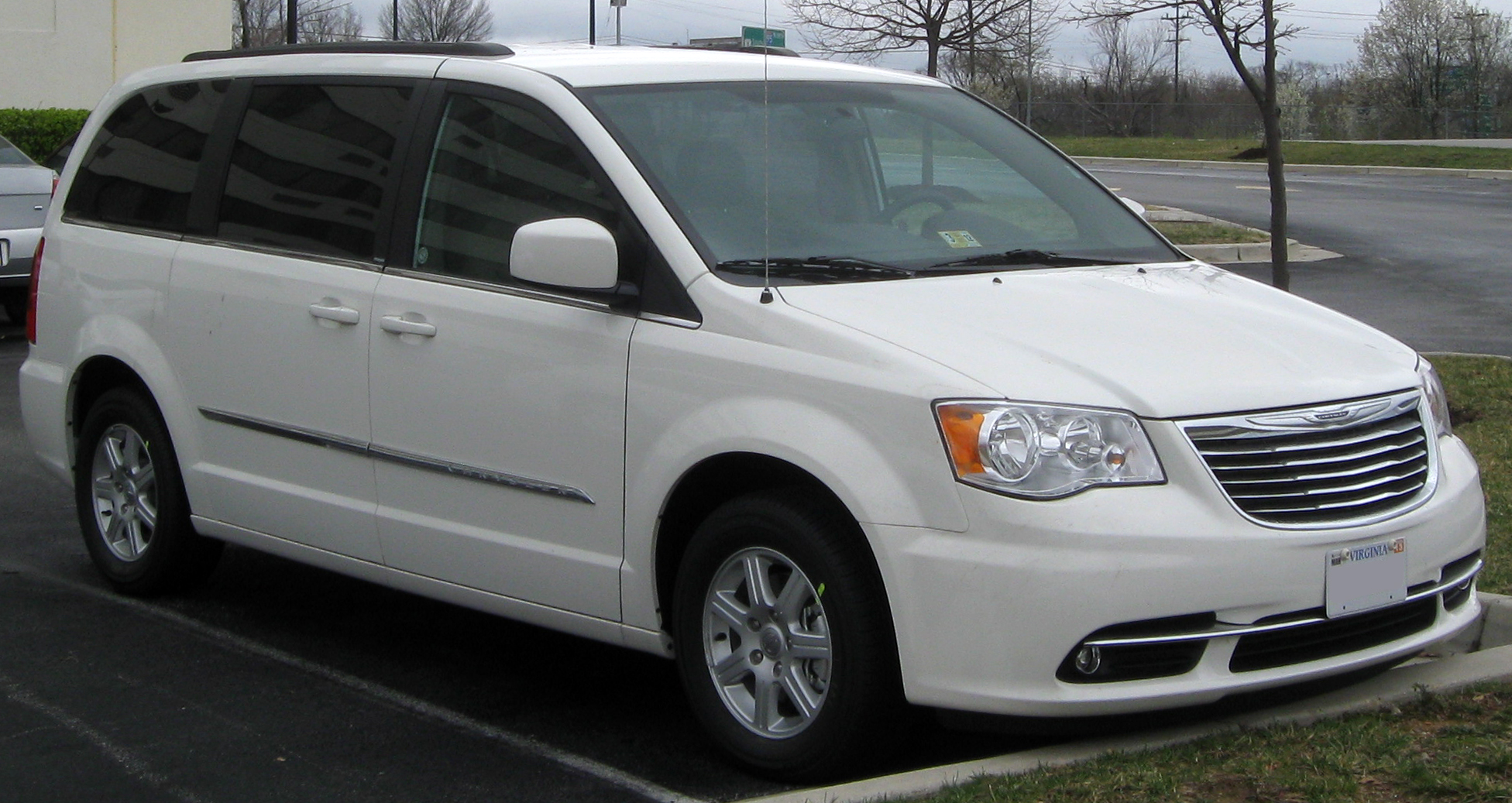 2011 Chrysler Town & Country photographed in College Park, Maryland, USA.